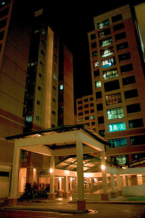 A night view of a Housing and Development Board apartment block in Woodlands, Singapore.